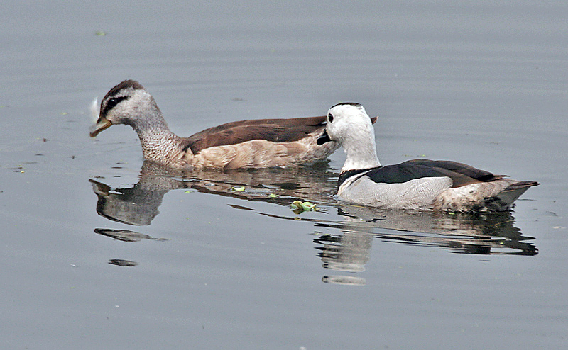 Cotton Pgymy Goose (Nettapus coromandelianus) in Kolkata, West Bengal, India.